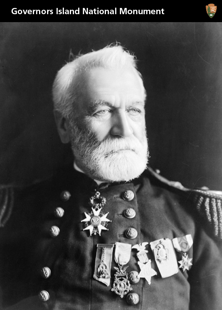 General, Freedman’s Bureau Commissioner, Educator O.O. Howard was a Union general during the Civil War. As commissioner of the Freedman’s Bureau (1865-1874) he led efforts to integrate newly freed slaves into American society. He founded and led and Howard University in Washington, D.C. from 1869 to 1874. Howard ended his Army career at Governors Island, New York in 1894.